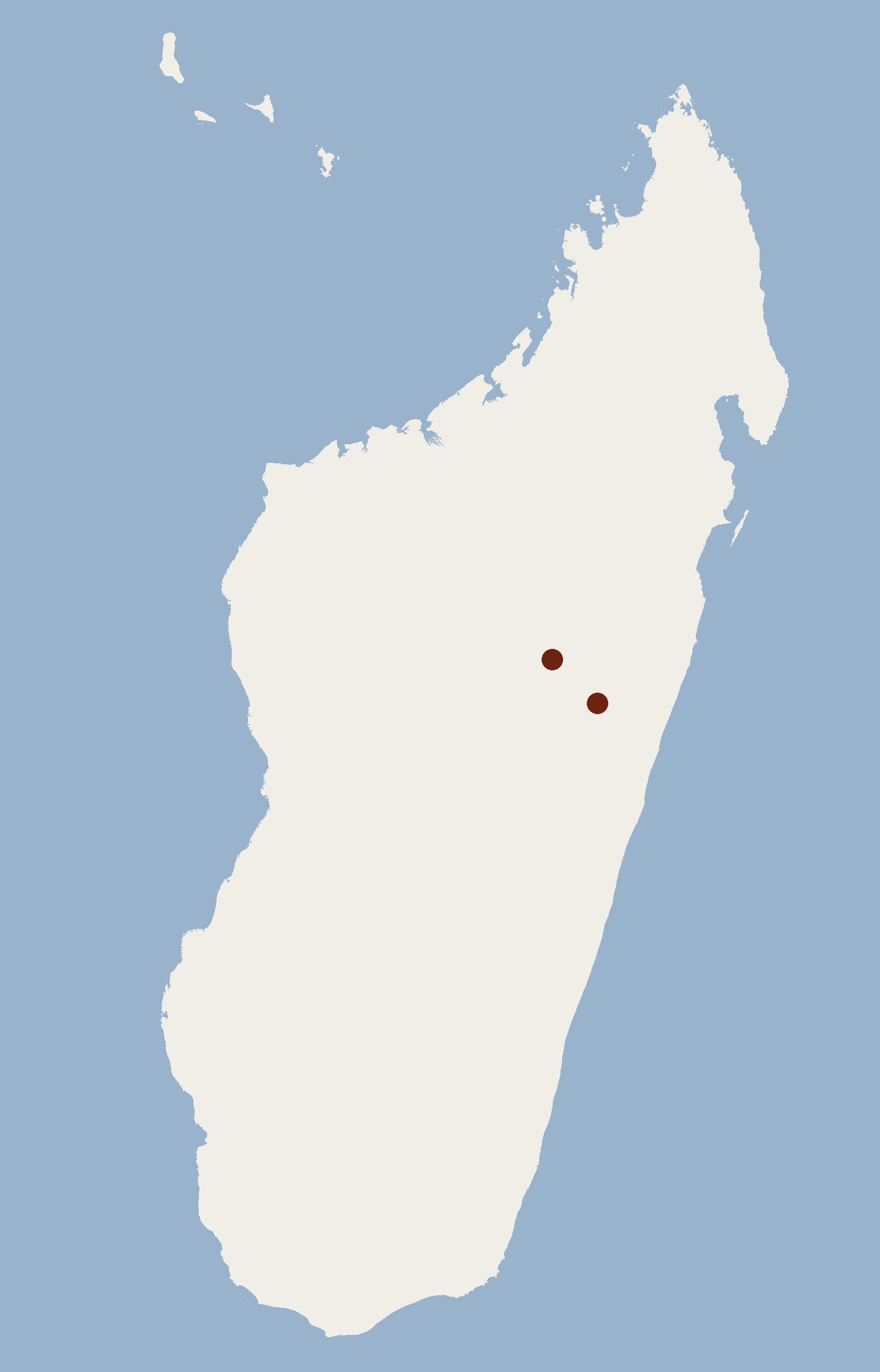 Geographical distribution of Neoromicia robertsi according to Museum specimens